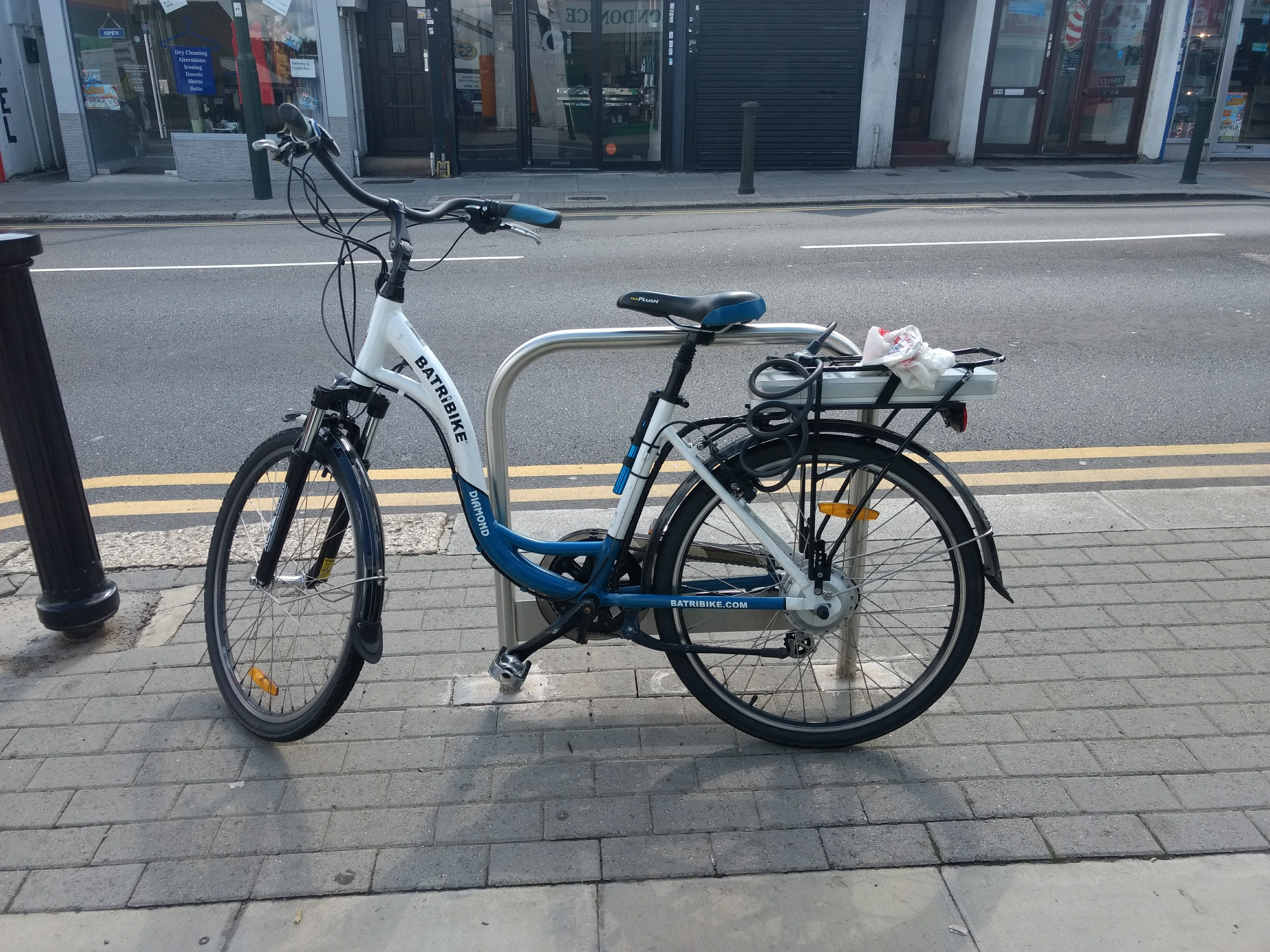 London